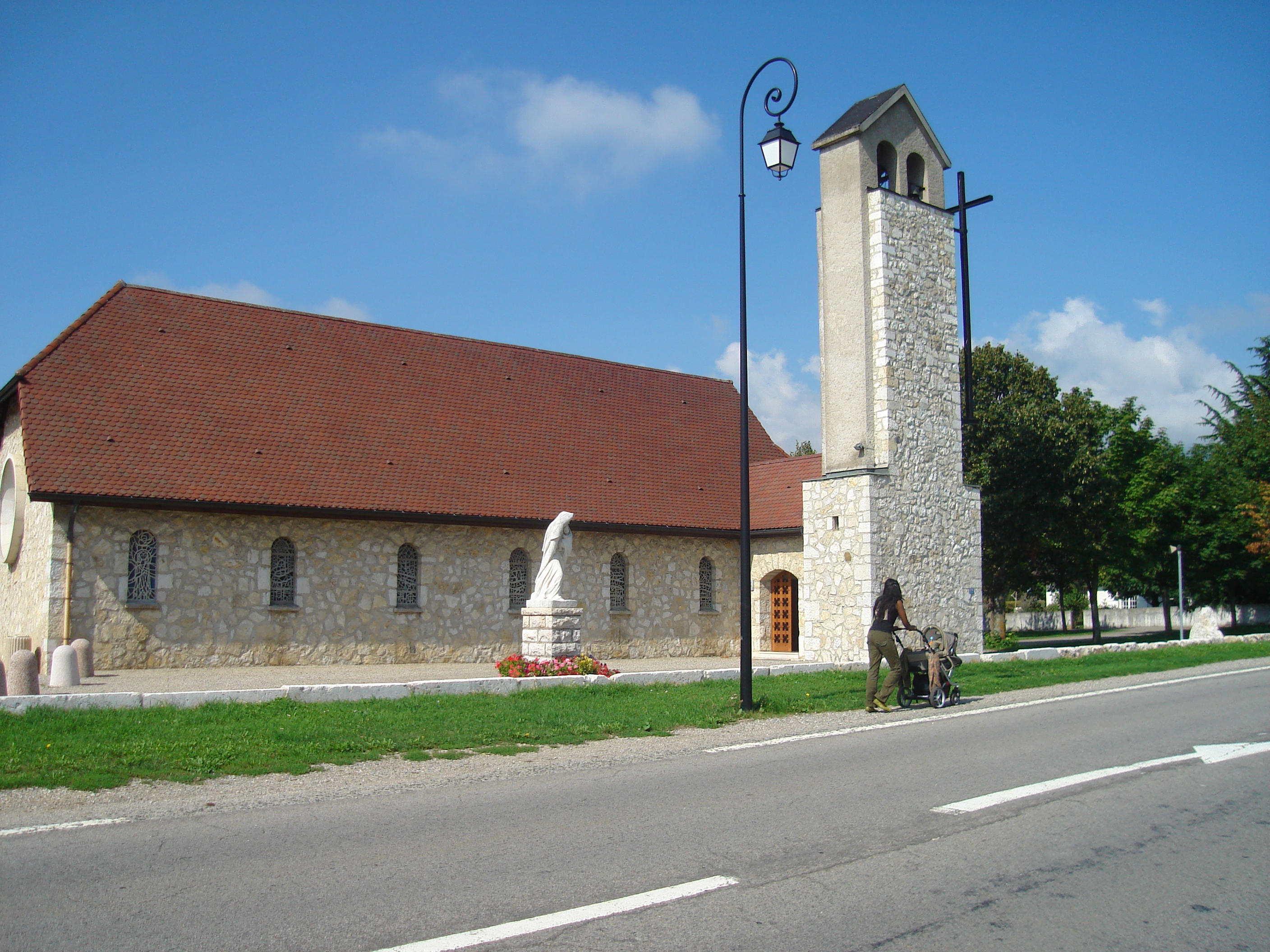 The Church Notre-Dame-de-la-Route-Blanche in Segny, France